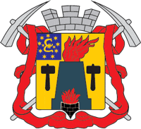 Coat of arms of Luhansk.